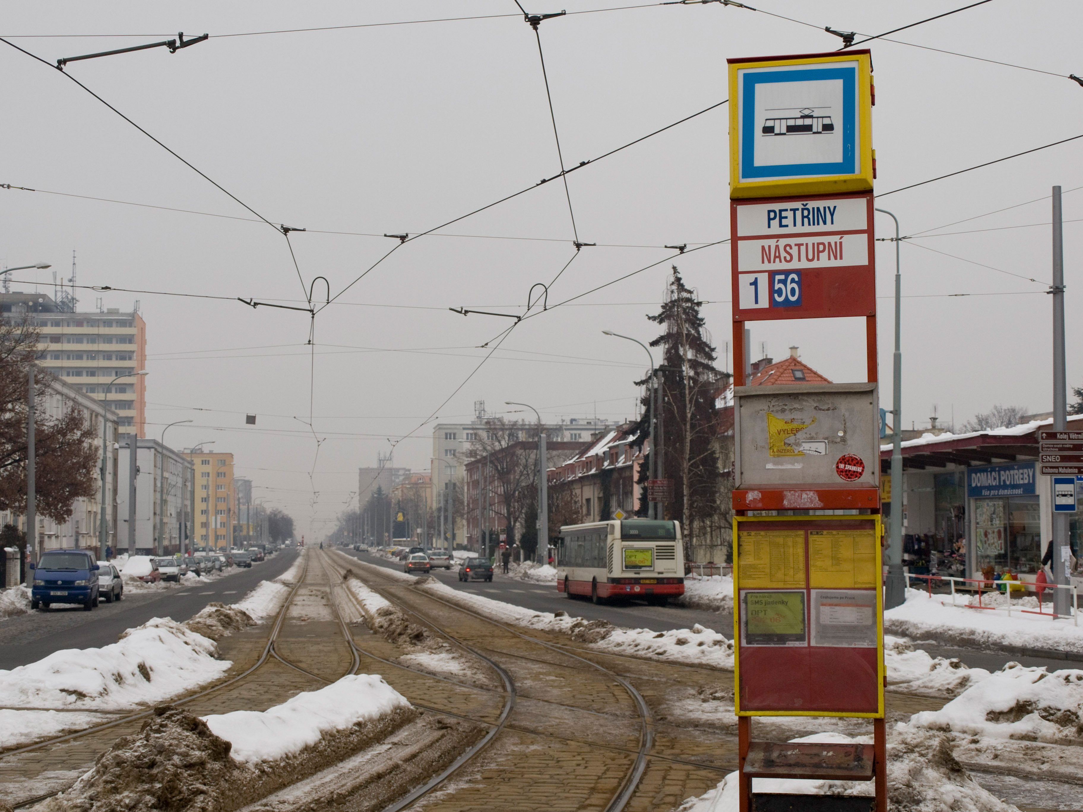 Tram stop, tram loop Petřiny, Prague